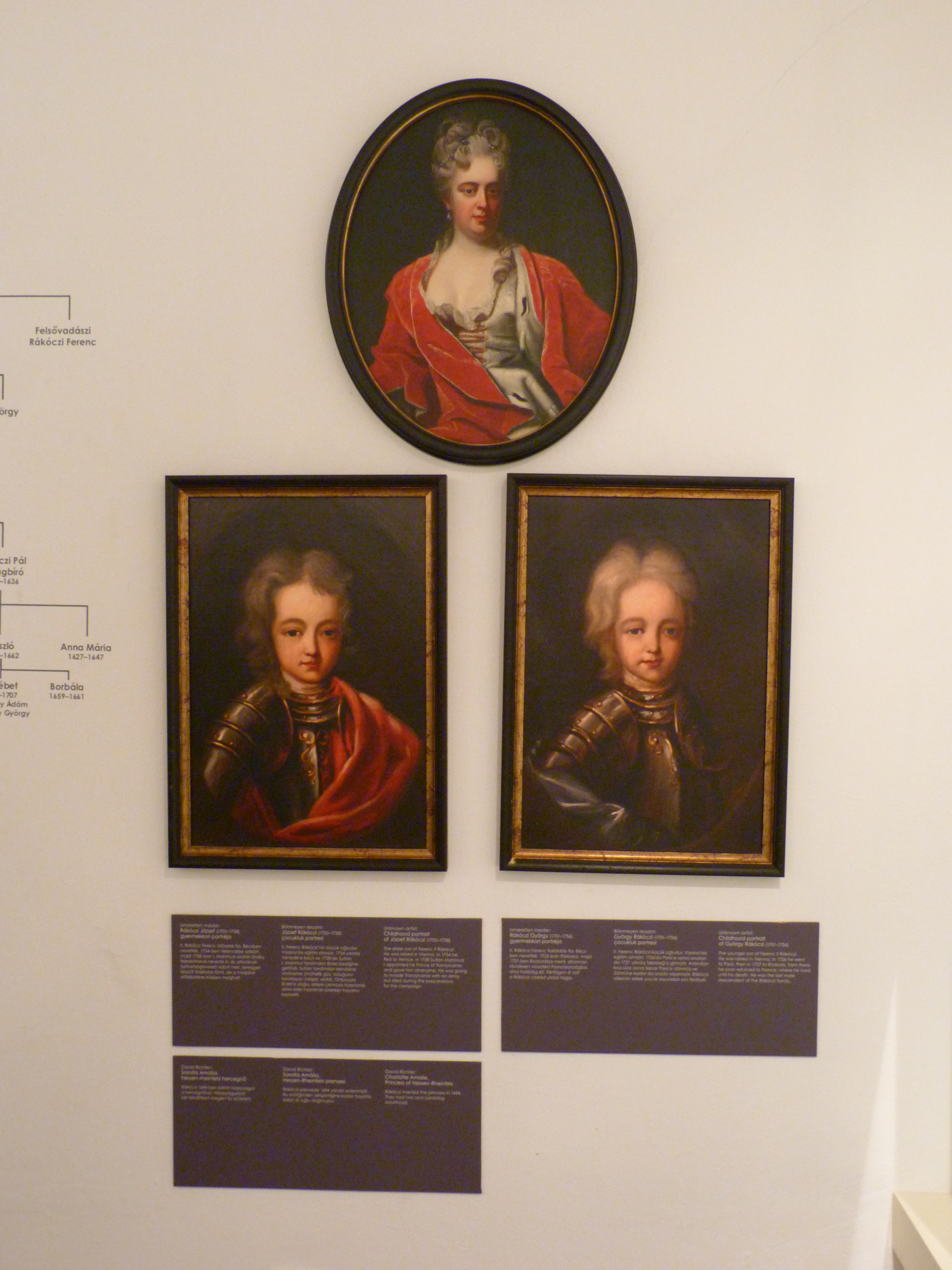 Live on the 25th of october, 2014. Rákóczi Museum, Tekirdağ, Turkey. ©© Derzsi Elekes Andor, Budapest, 2014, Published in the Metapolisz DVD line. You are authorised to use this vid under Creative Commons – even for commercial, for profit purposes. The vid must be attributed to Derzsi Elekes Andor. All of the photos and vids in the Metapolisz DVD line are under Creative Commons and can be used even for commercial – for profit – purposes. Recommended Citation Derzsi Elekes Andor: Metapolisz DVD line